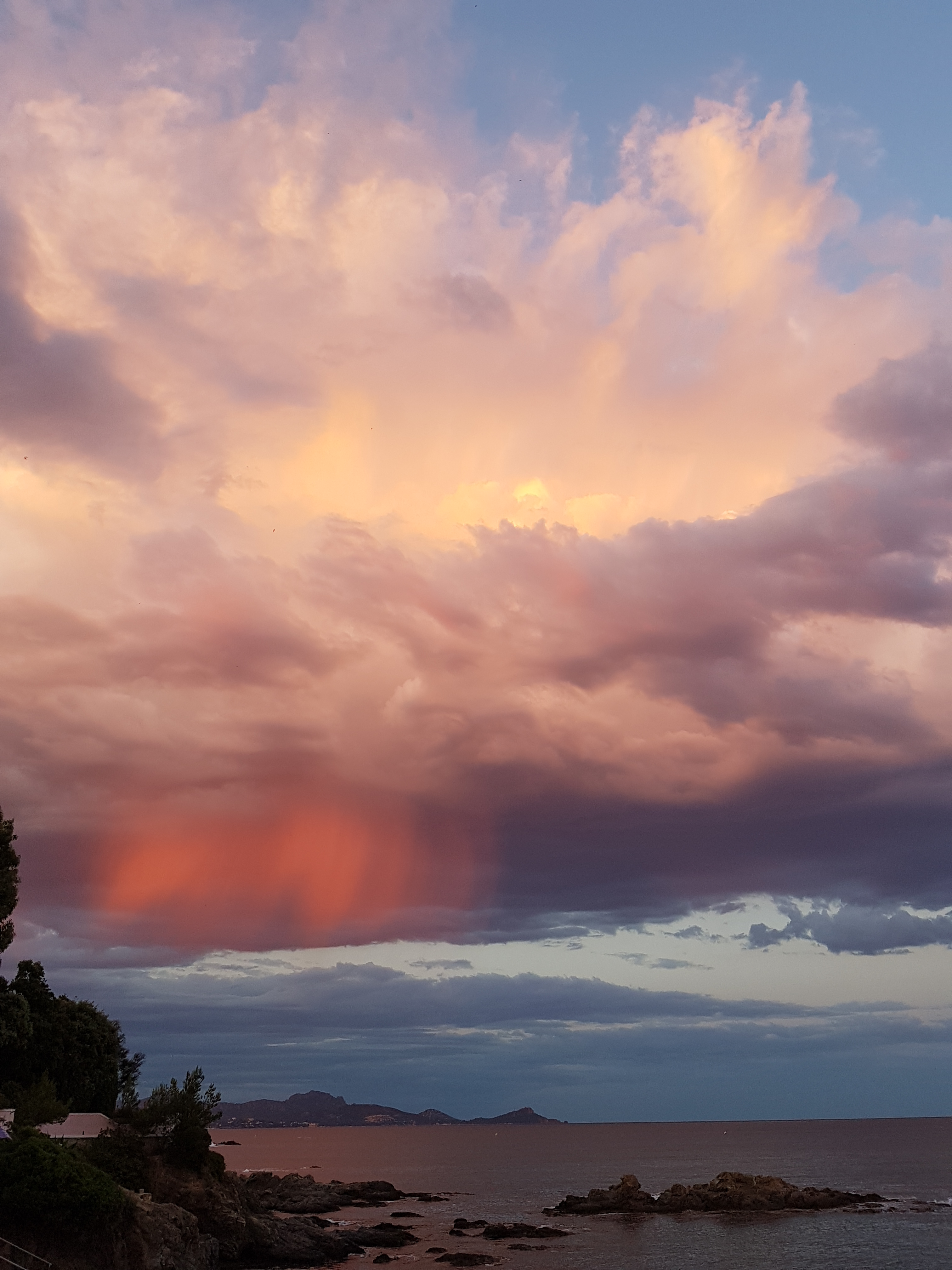 This photography has been taken on July 14th, 2016, over the Gulf of Fréjus (French Riviera), at sunset time. The rain is lighted by the sunset (coming from the left of the view) and goes back to vapor before it can reach the sea.